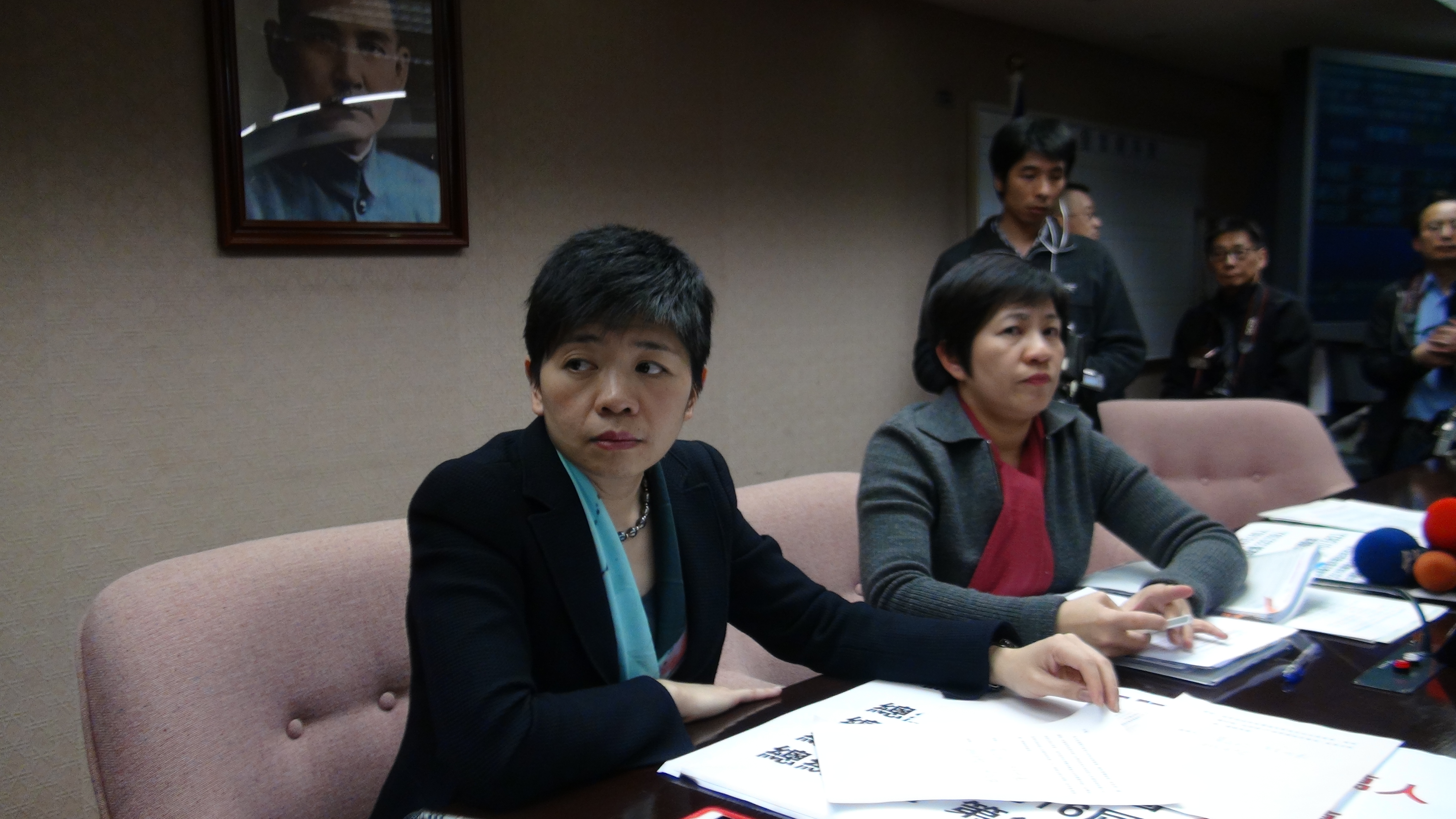 台灣團結聯盟籍立委占領主席台以表示對於政策的不滿。